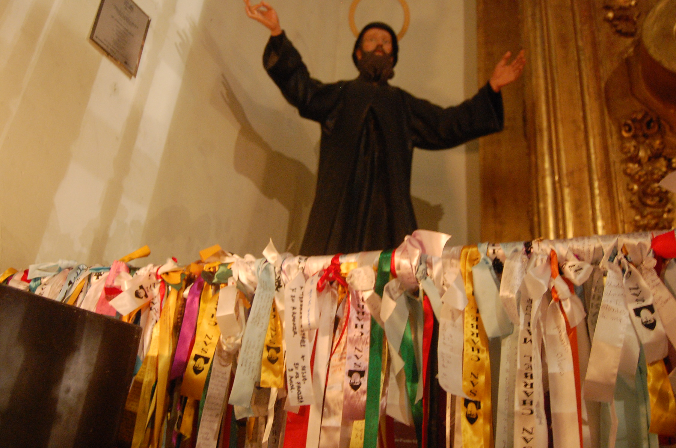 Statue of Saint Charbel at the Mexico City Metropolitan Cathedral in Mexico City with handwritten prayer requests attached as ribbons underneath. Taken by Chris Kanaan